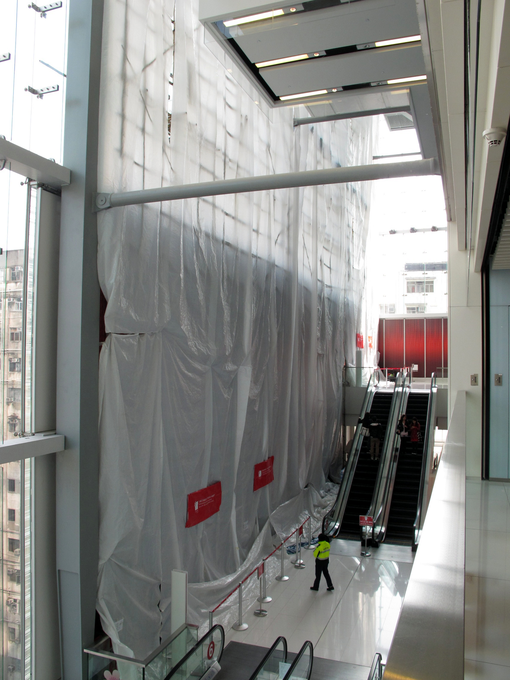 iSQUARE Windows Repair